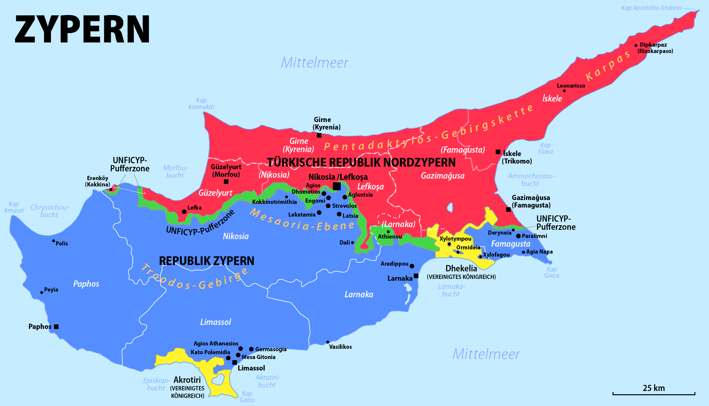 Map of Cyprus